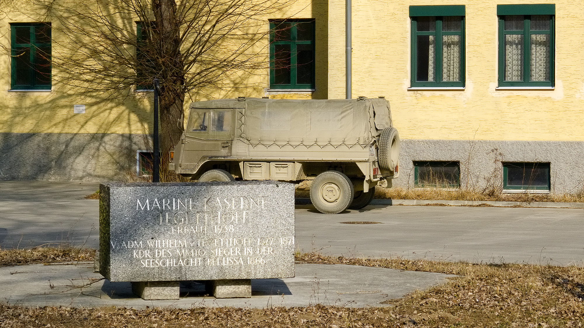 Barracks Marinekaserne in Vienna Döbling